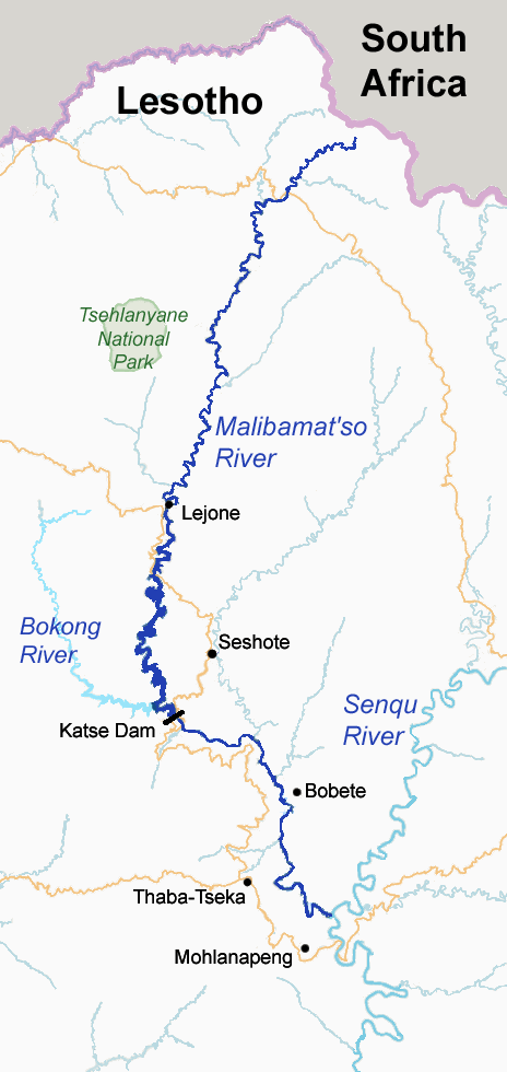 Course of the Malibamat'so River in northern Lesotho. Map data from Open Street Maps.